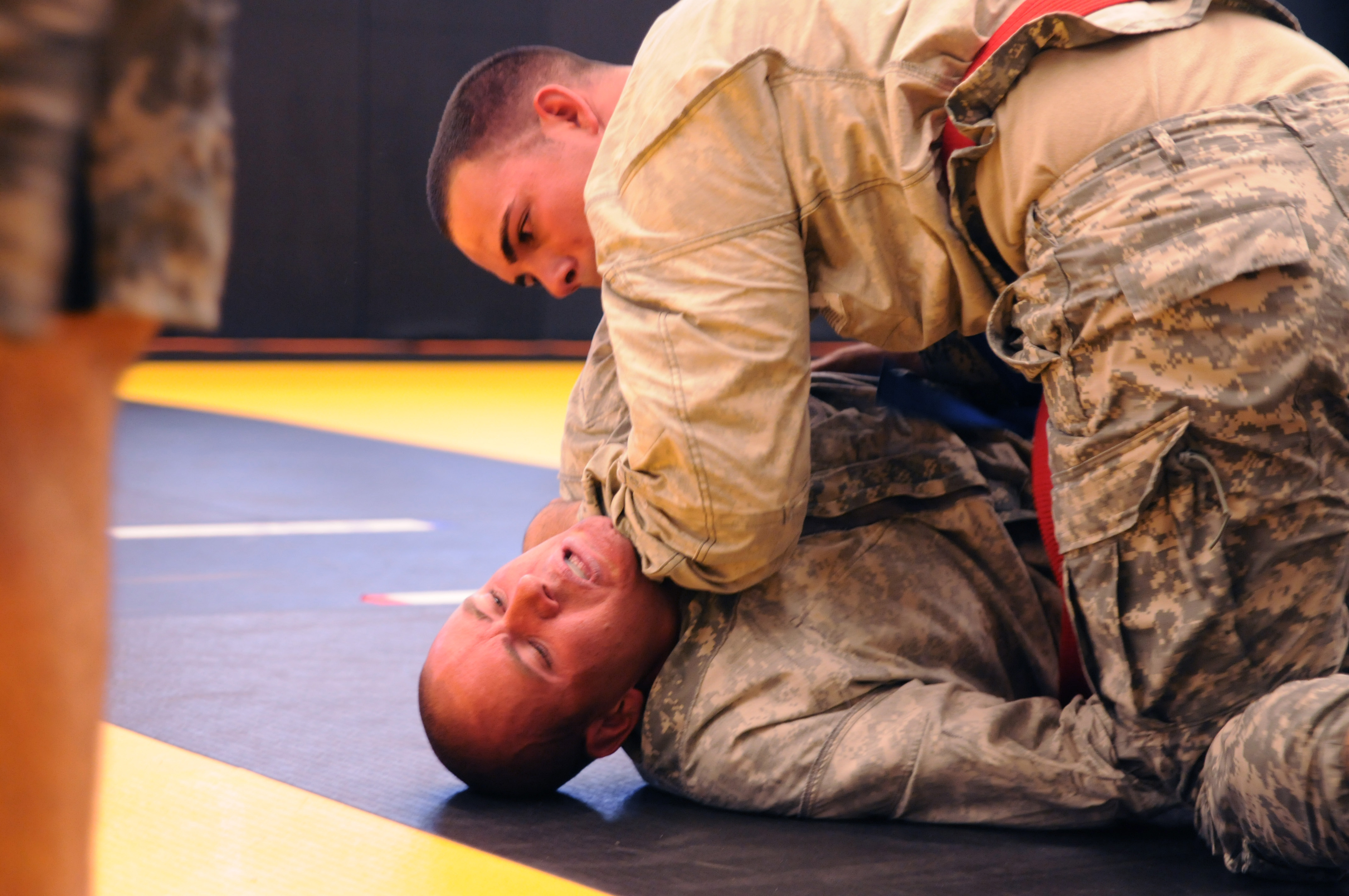 Staff Sgt. Brian Bower (top), a combat engineer with Arizona Army National Guard 819th Sapper Company, maintains a hold on his opponent Staff Sgt. Craig Pace, a human resources NCO with Utah Army National Guard Headquarters, 204th Maneuver Enhancement Brigade, during their combatives bout in the 2012 Region VII Best Warrior Competition at Camp San Luis Obispo, Calif., April 25. The combatives event challenged competitors to submit their opponent within six minutes using an authorized hold, or win by majority of points gained throughout the match using various moves. (Army National Guard photo/Spc. Grant Larson)